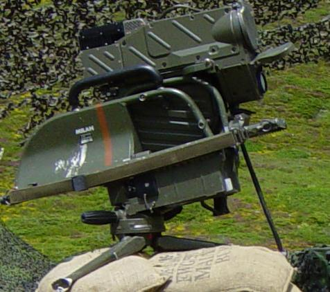 Description: anti-tank weapon MILAN with MIRA (MILAN InfraRot Adapter) Thermal Sight mounted on a tripod Date: June 2002 Author: Björn Becker